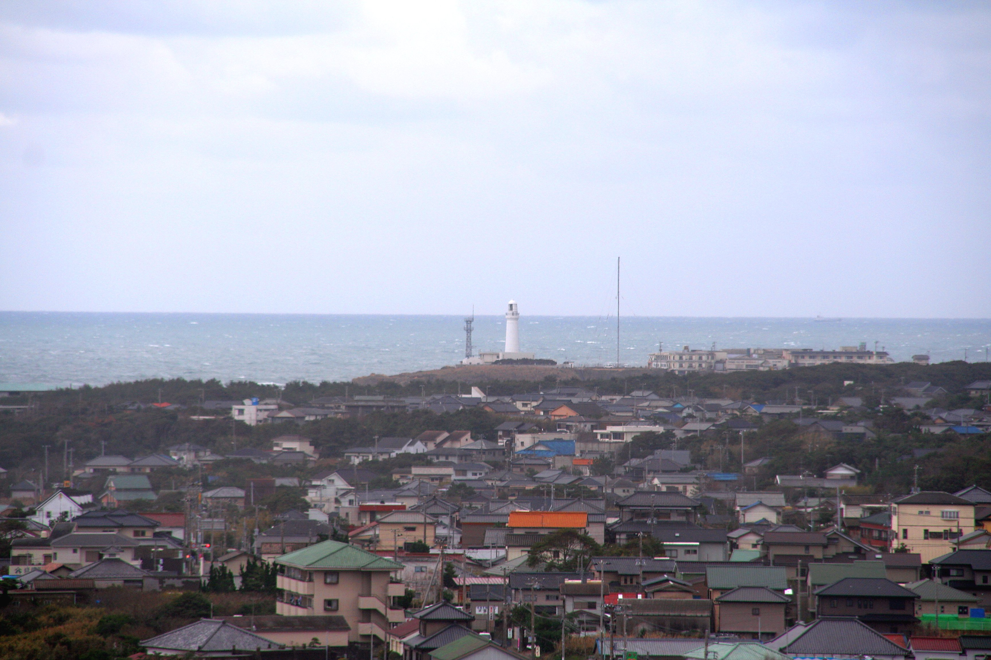 Inubozaki Lighthouse from Choshi Port Tower, Jan. 2007, Chiba JAPAN ; Japanese description:銚子ポートタワーより望む犬吠埼灯台 2007年1月 千葉県銚子市 (投稿者自身による撮影)